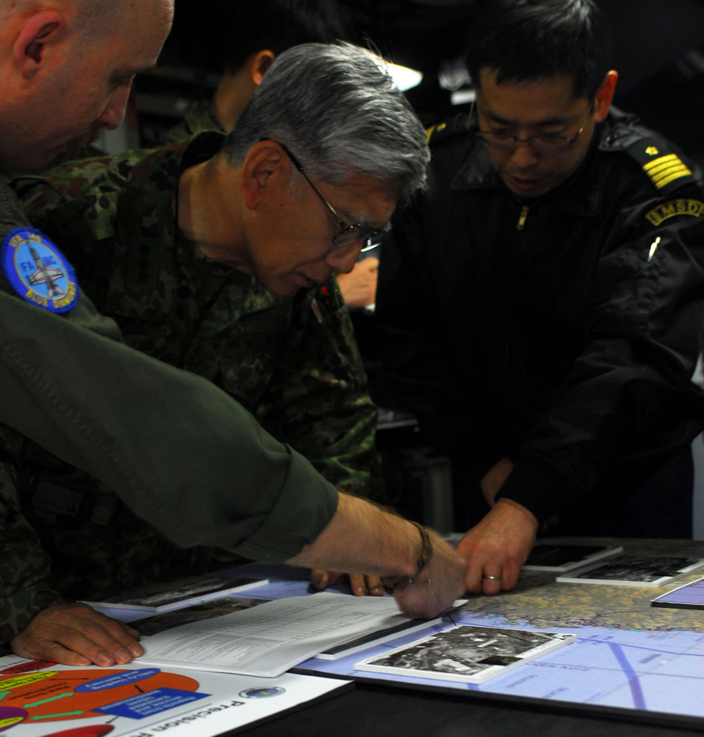 PACIFIC OCEAN (March 31, 2011) - Lt. Gen. Eiji Kimizuka, commanding general of Joint Task Force Touhoku views imagery of area effected by Japan's earthquake and subsequent tsunami, in the Carrier Air Wing Intelligence Center aboard the aircraft carrier USS Ronald Reagan (CVN 76). Kimizuka visited Ronald Reagan to tour operations supporting Japan's earthquake and tsunami relief efforts. Ronald Reagan is off the coast of Japan to provide disaster relief and humanitarian assistance to Japan as directed in support of Operation Tomodachi. (U.S. Navy Photo by Mass Communication Specialist 3rd Class Dylan McCord)